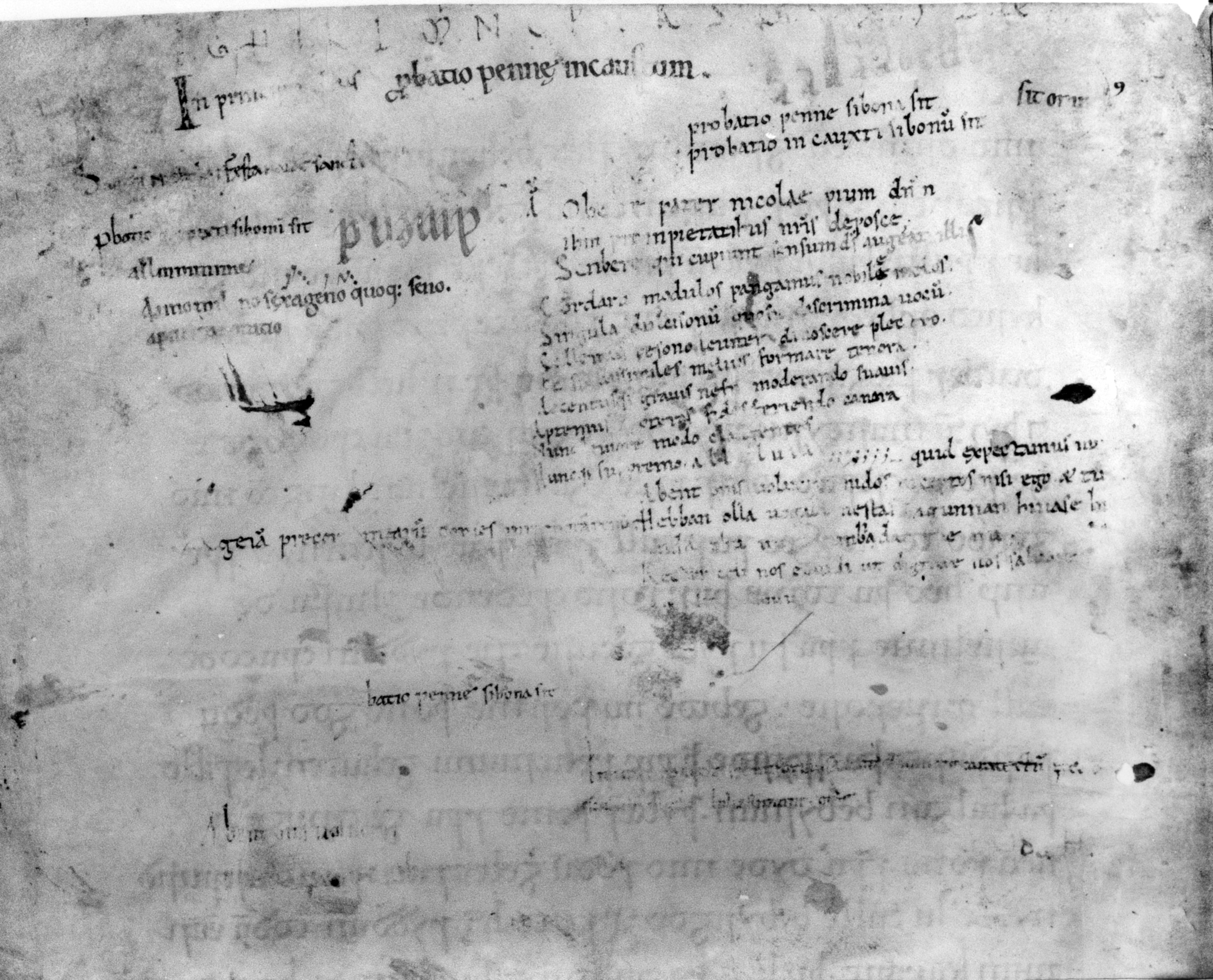 Famous old Dutch text "Hebban olla vogala"